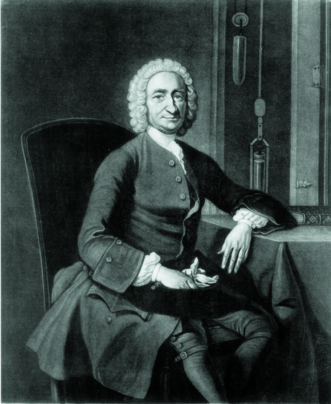 George Graham (1674-1751) The first model of the solar system was made by George Graham (1674-1751) a renowned clockmaker buried in Westminster Abbey.